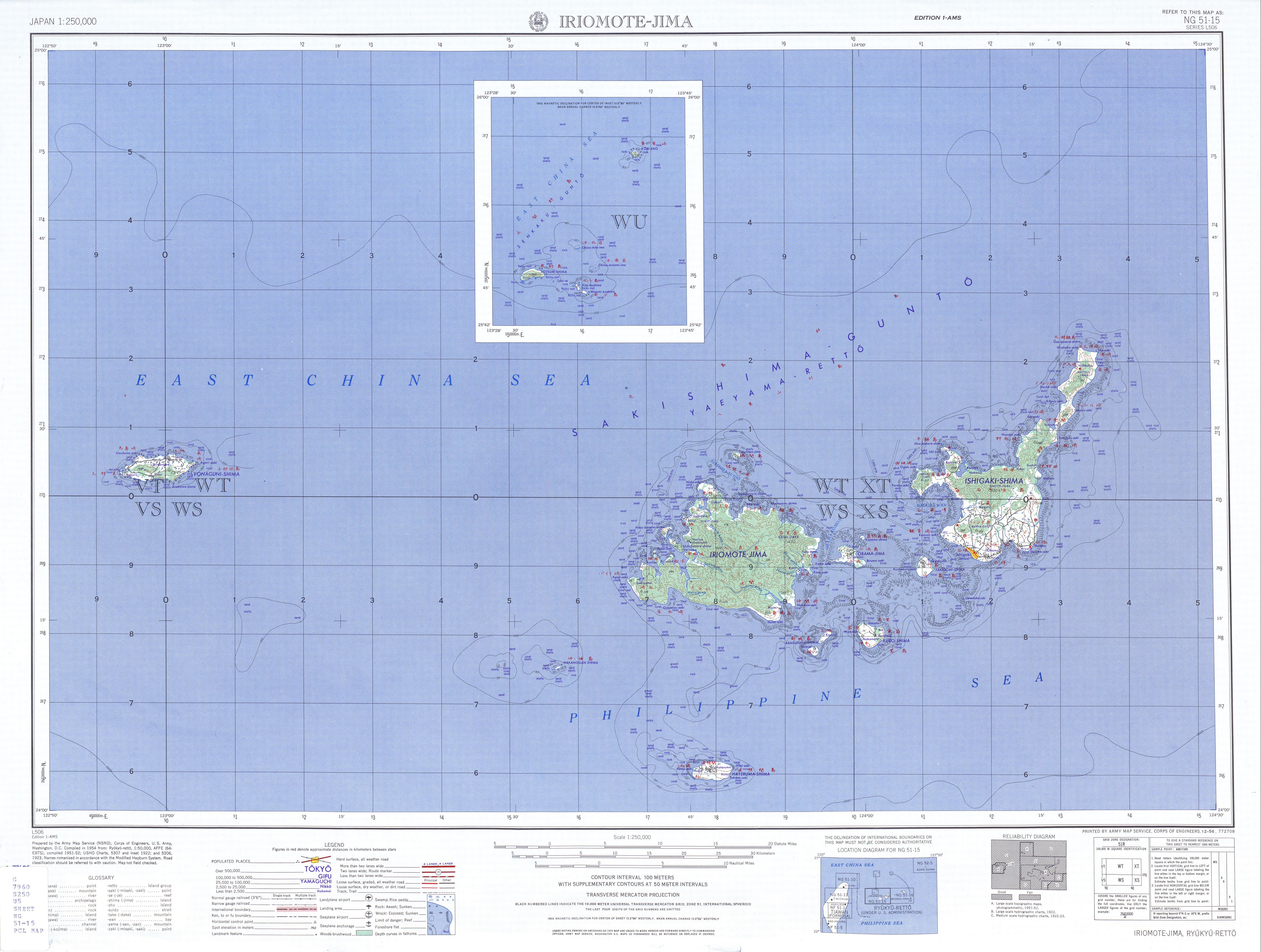 NG 51-15 Iriomote-Jima [with inset map of Uotsuri-Shima]